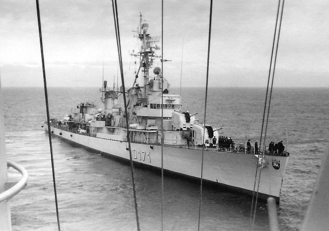 The West German destroyer Zerstörer 2 (D 171) as seen from the destroyer Hamburg (D 181) during a towing exercise in the North Sea, in March 1971.